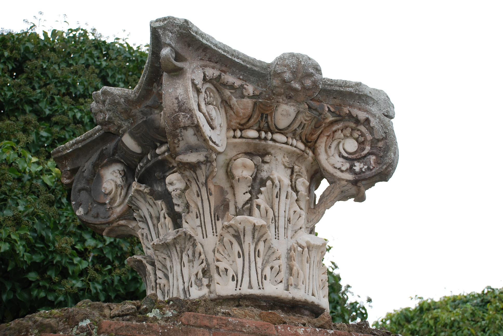 Ostia antica (archaeological site)